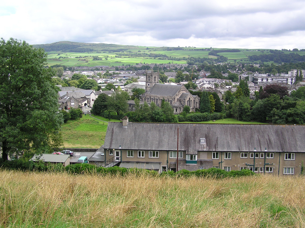 Panorama of Kendal (Cumbria) with the Parish Church (Holy Trinity) - August 2008